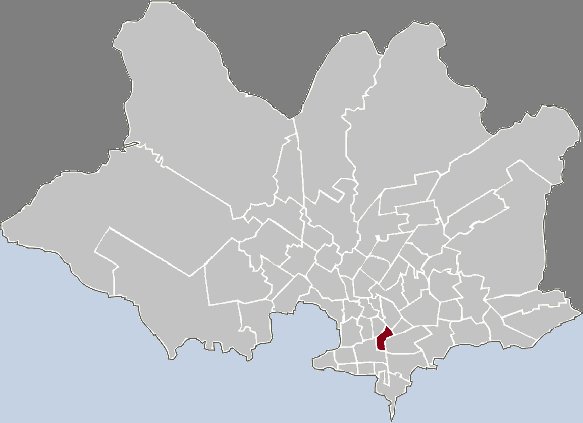 Map highlighting the given barrio in Montevideo.